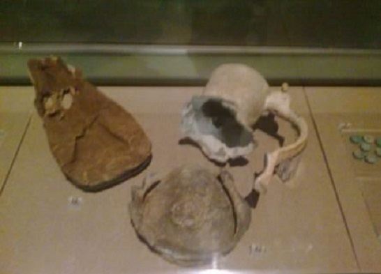 Medieval hoard from Ulvila Church on display at the Satakunta Museum in Pori, Finland.